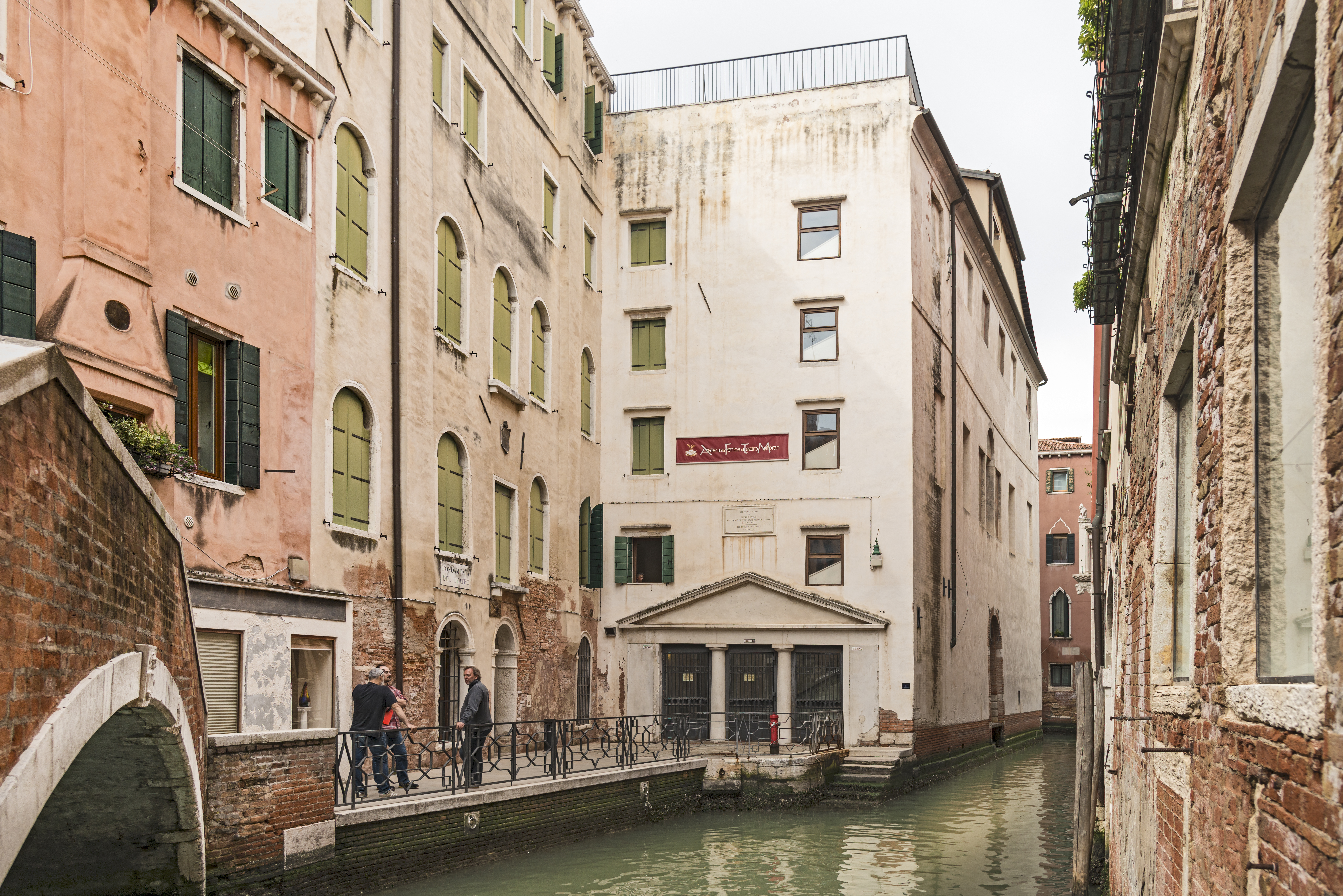 Location of Casa Polo in Venice. Part of the Malibrant Theater, which runs along the Rio San Lio, is today a drama workshop attached to The Fenice. This white building with a neoclassical porch is erected on the site Casa Polo, where lived the father, the uncle and Marco Polo in Venice. The Casa Polo was destroyed by a fire in 1598. A plaque perpetuates the memory.